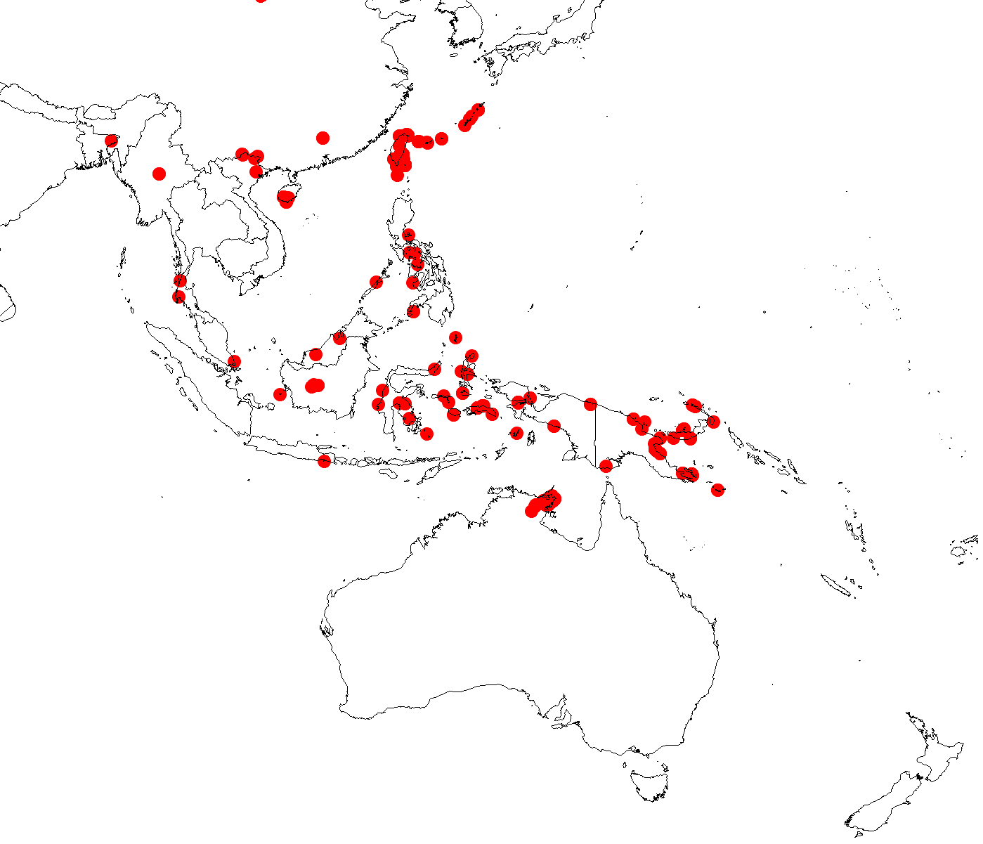 Parsonsia alboflavescens Occurrence data downloaded from (21 December 2018) GBIF Occurrence Download